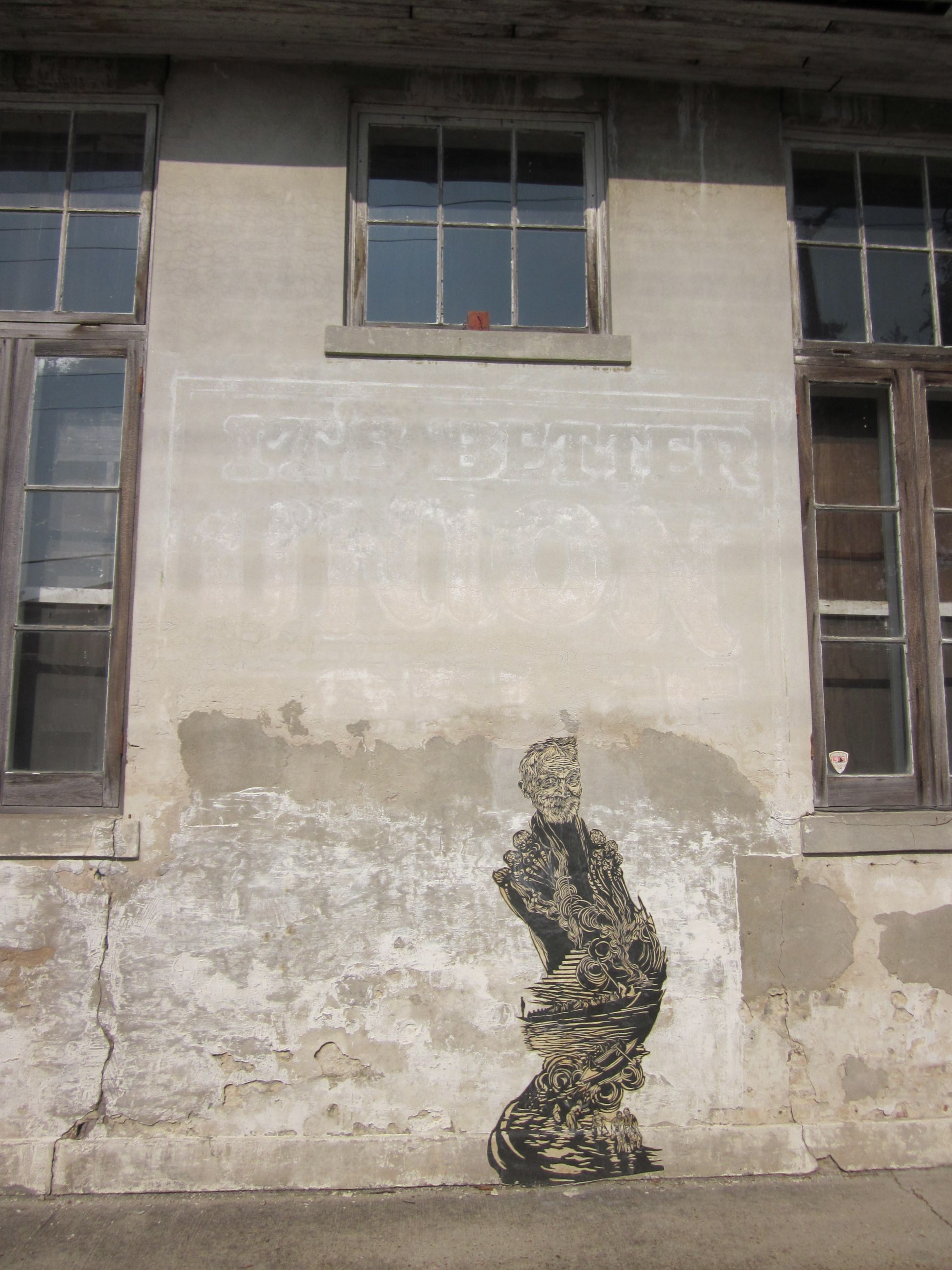 New Orleans: Burgundy Street in the Bywater neighborhood. Old building has "ghost sign"; graffiti by "Swoon".